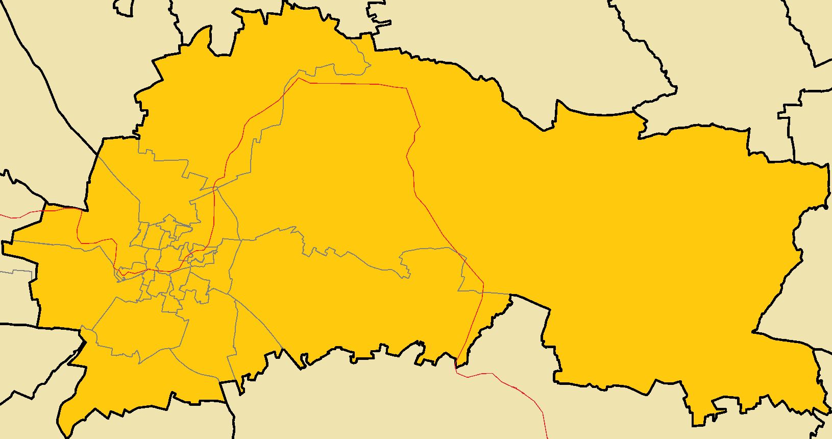 Nicosia Municipality with quarters (de jure).